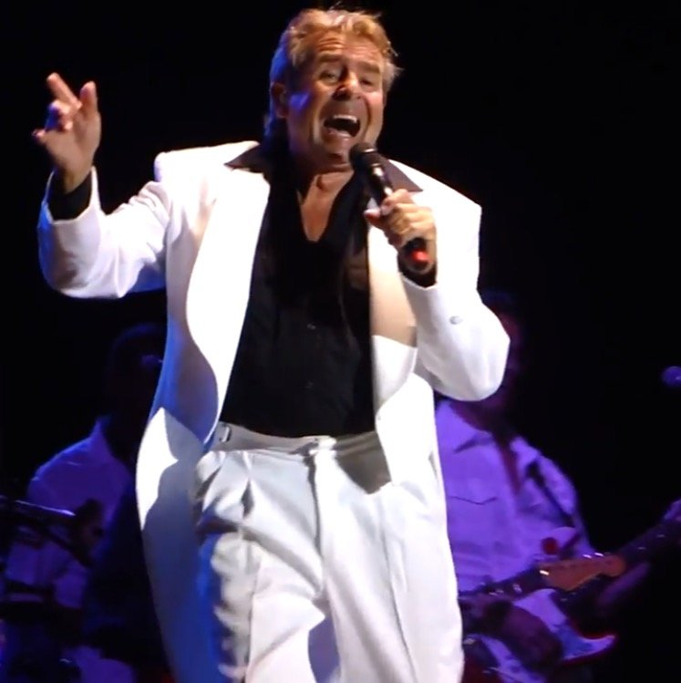 Davy live with the Monkees 2011